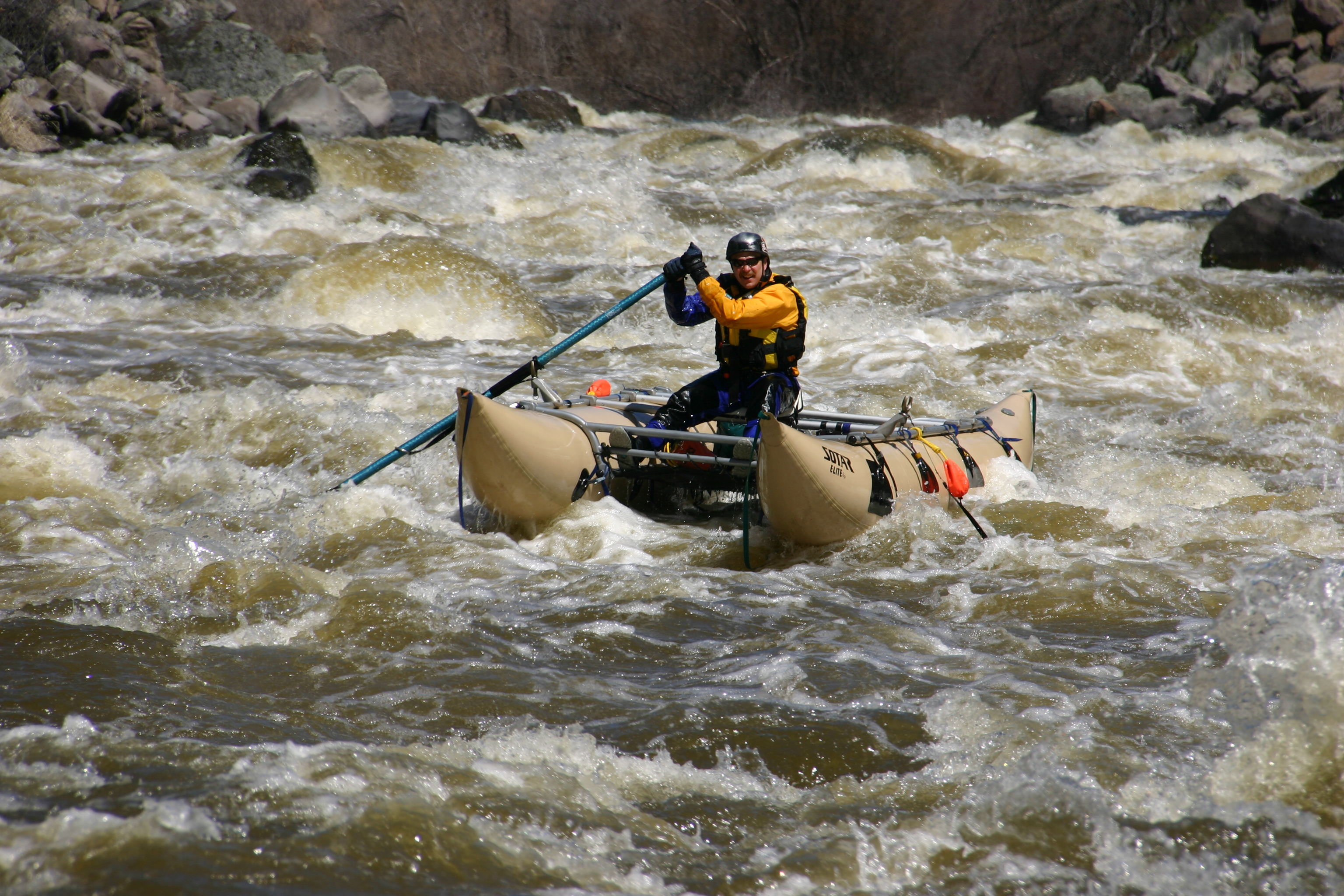 Cataraft in Caldera, Klamath River (original flickr description: "Neil showing off in Caldera")